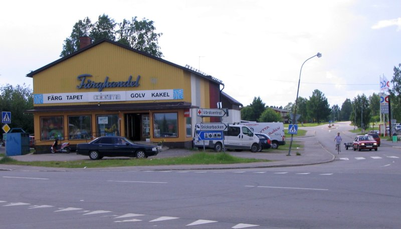 Centre of Pajala municipality, Sweden